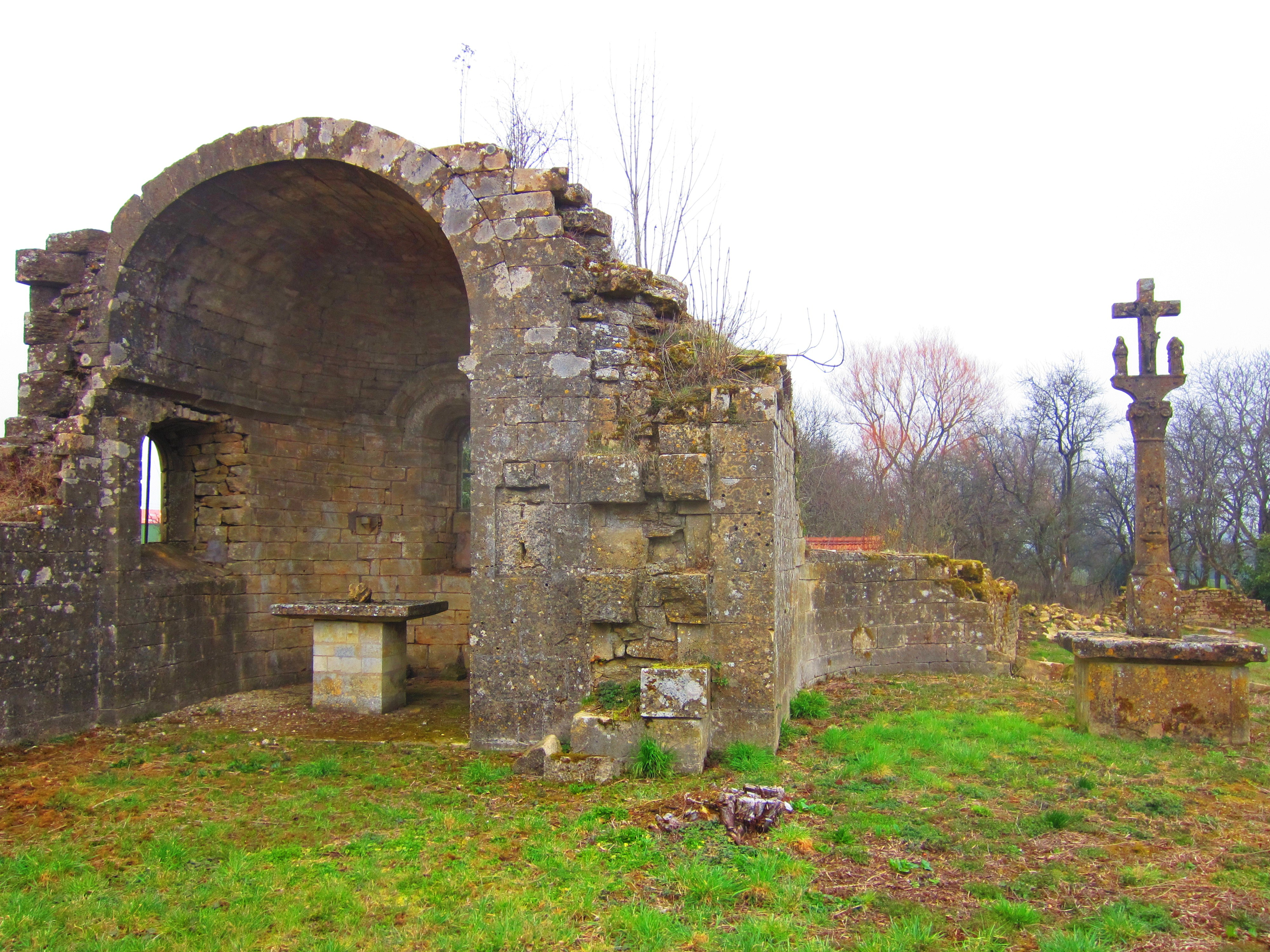 Sancy prieure